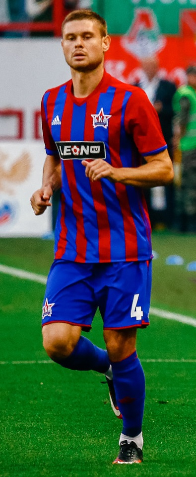 Maksim Tishkin with FC SKA-Khabarovsk in a game against FC Lokomotiv Moscow.